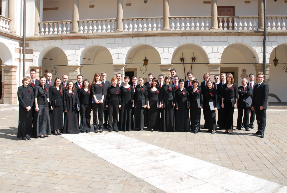 Psalmodia at choir contest in Niepołomice.